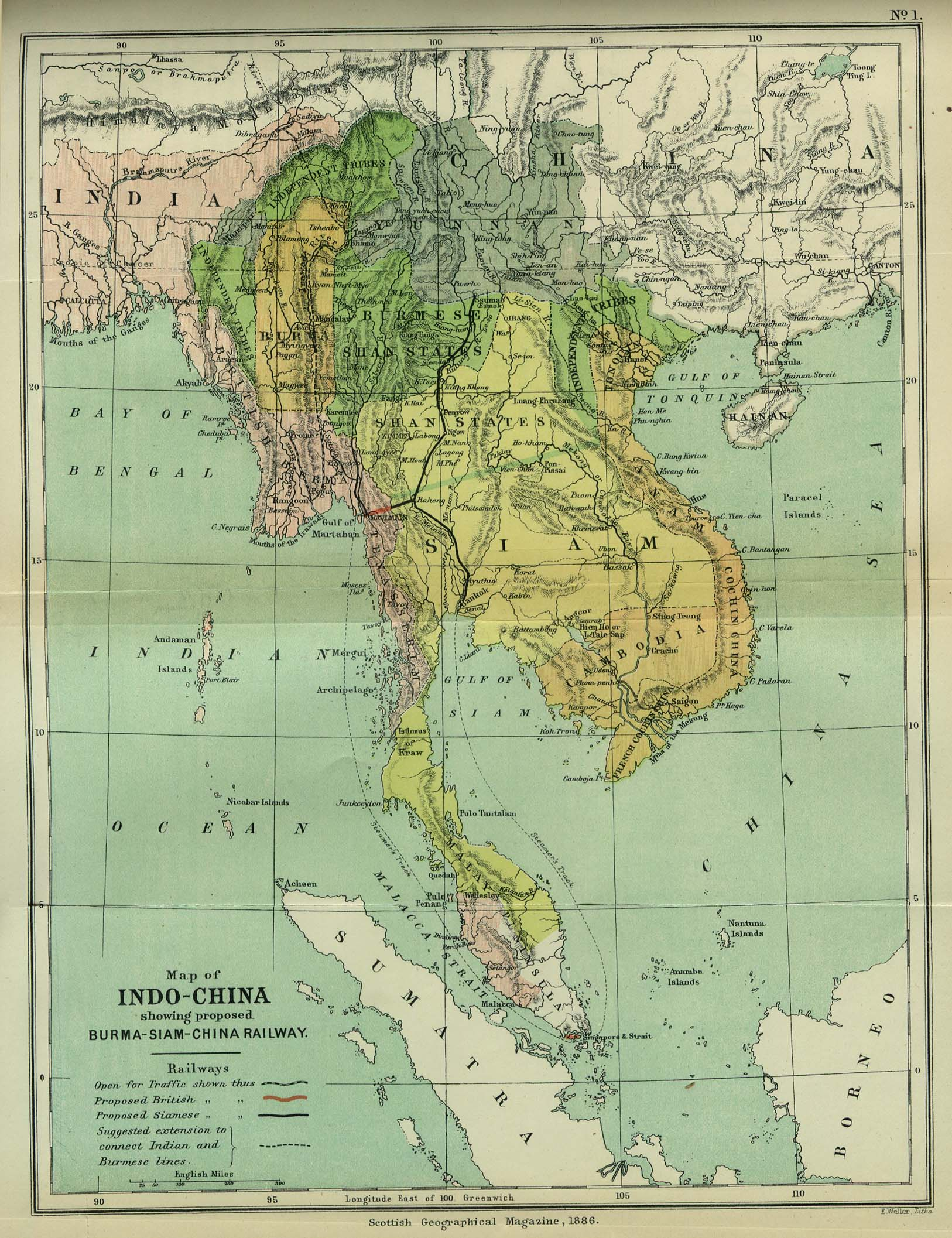 Map of Indochina